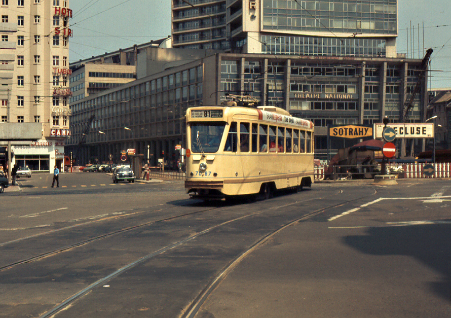 PCC in Brussels by "Place Rogiers", riding in the direction of Bruxelles Midi. This is taken before the opening of the North-South premetro. The tramstop in the background was also used by the vicinal railway wich had there endpoint turningloop here. The vicinal trams turned left. The buiding in the background is demolished en replaced with a new building.